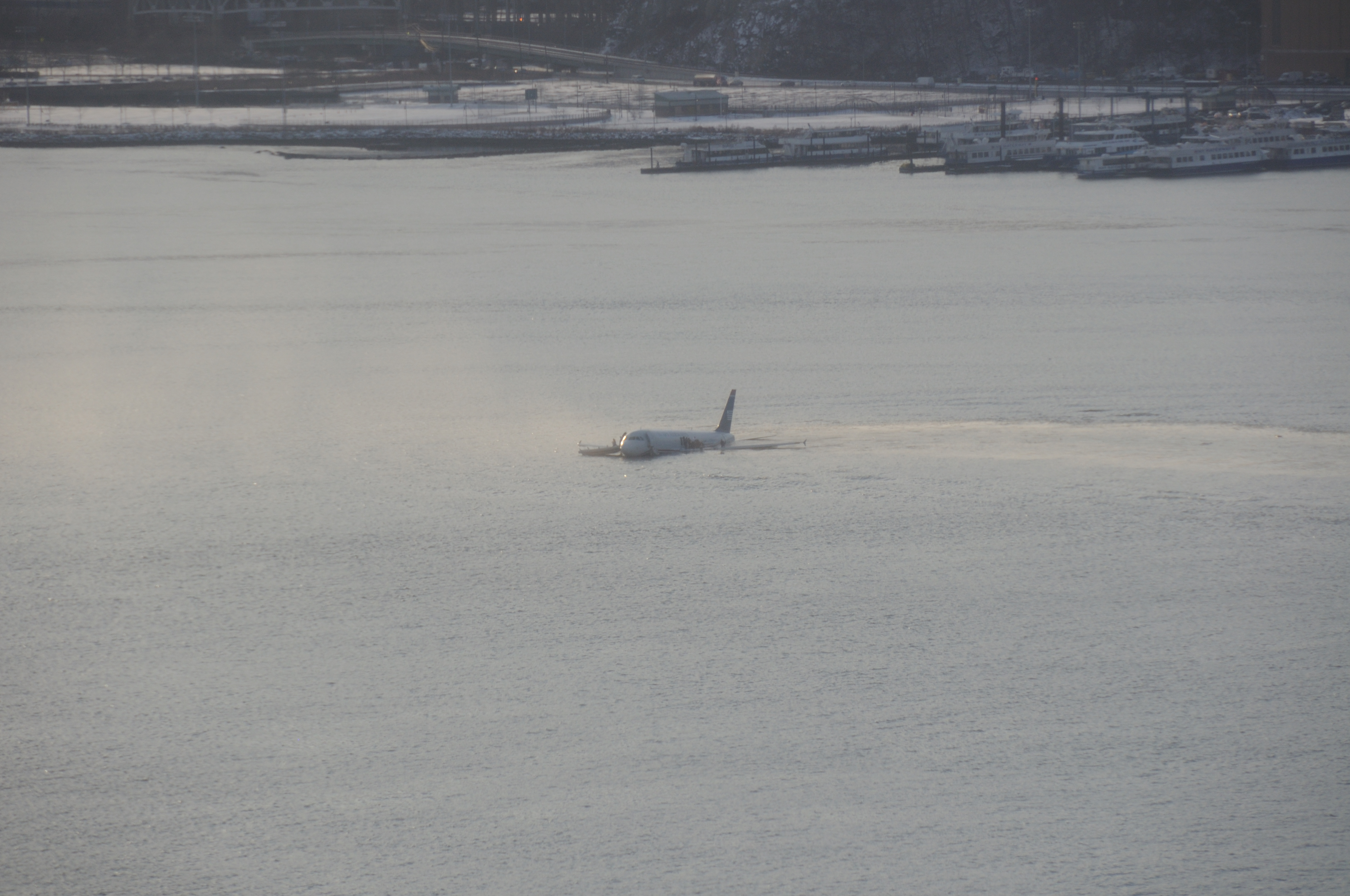 US Airways Flight 1549 shortly after landing in the Hudson River.